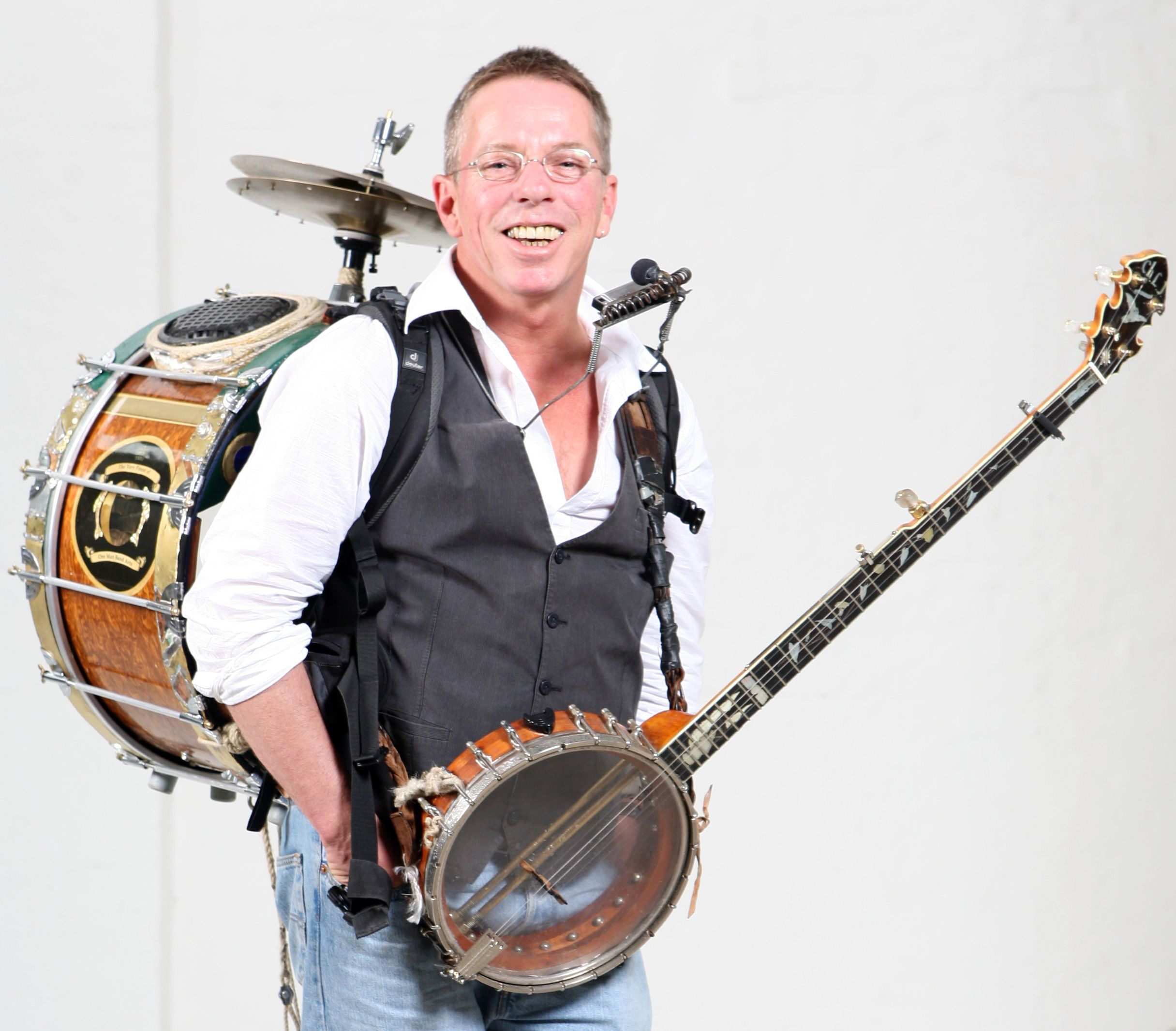 one-Man-Band